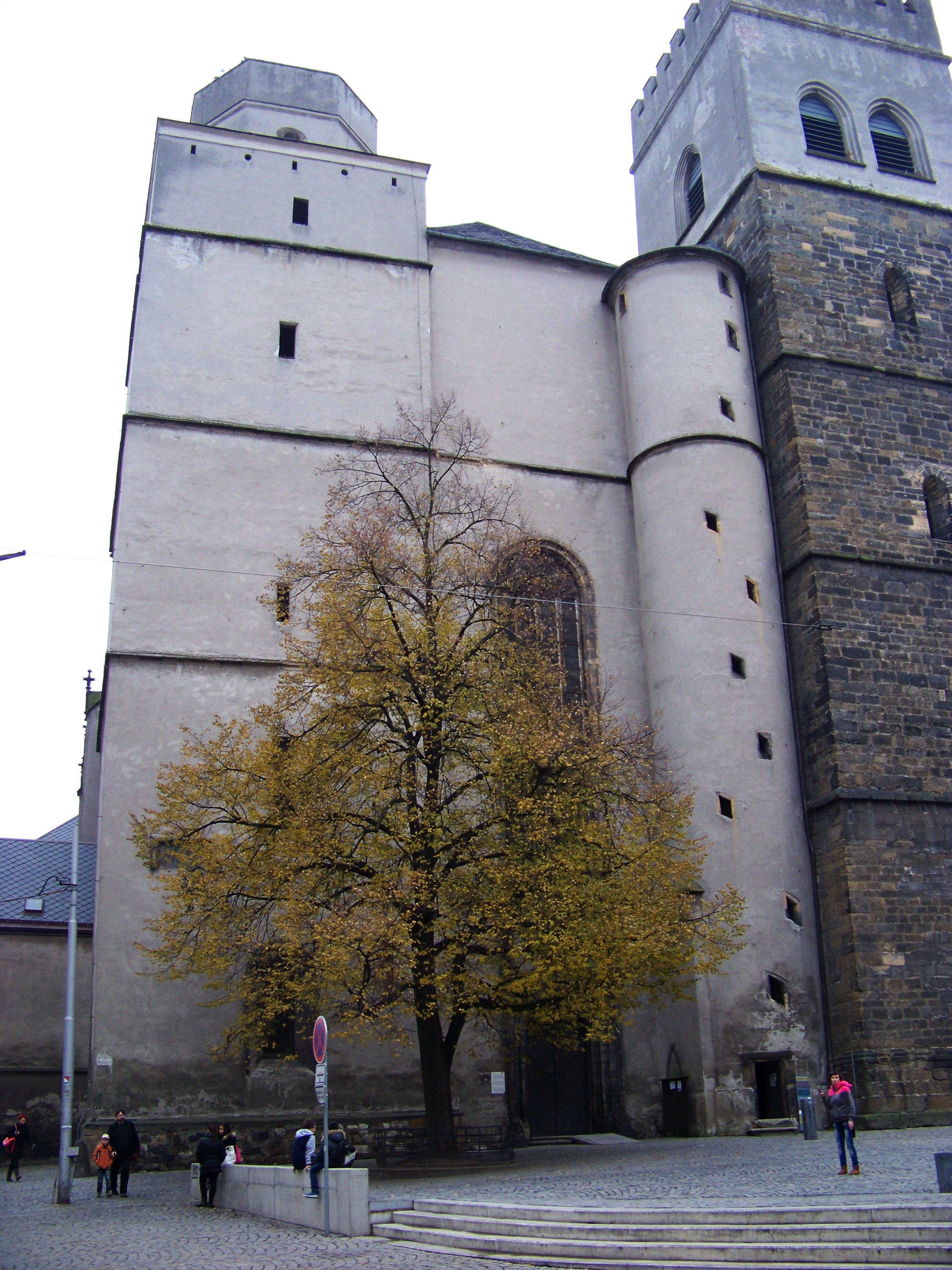 Olomouc, Olomouc District, Olomouc Region, Czech Republic. Church of Saint Maurice, from 8. května street.